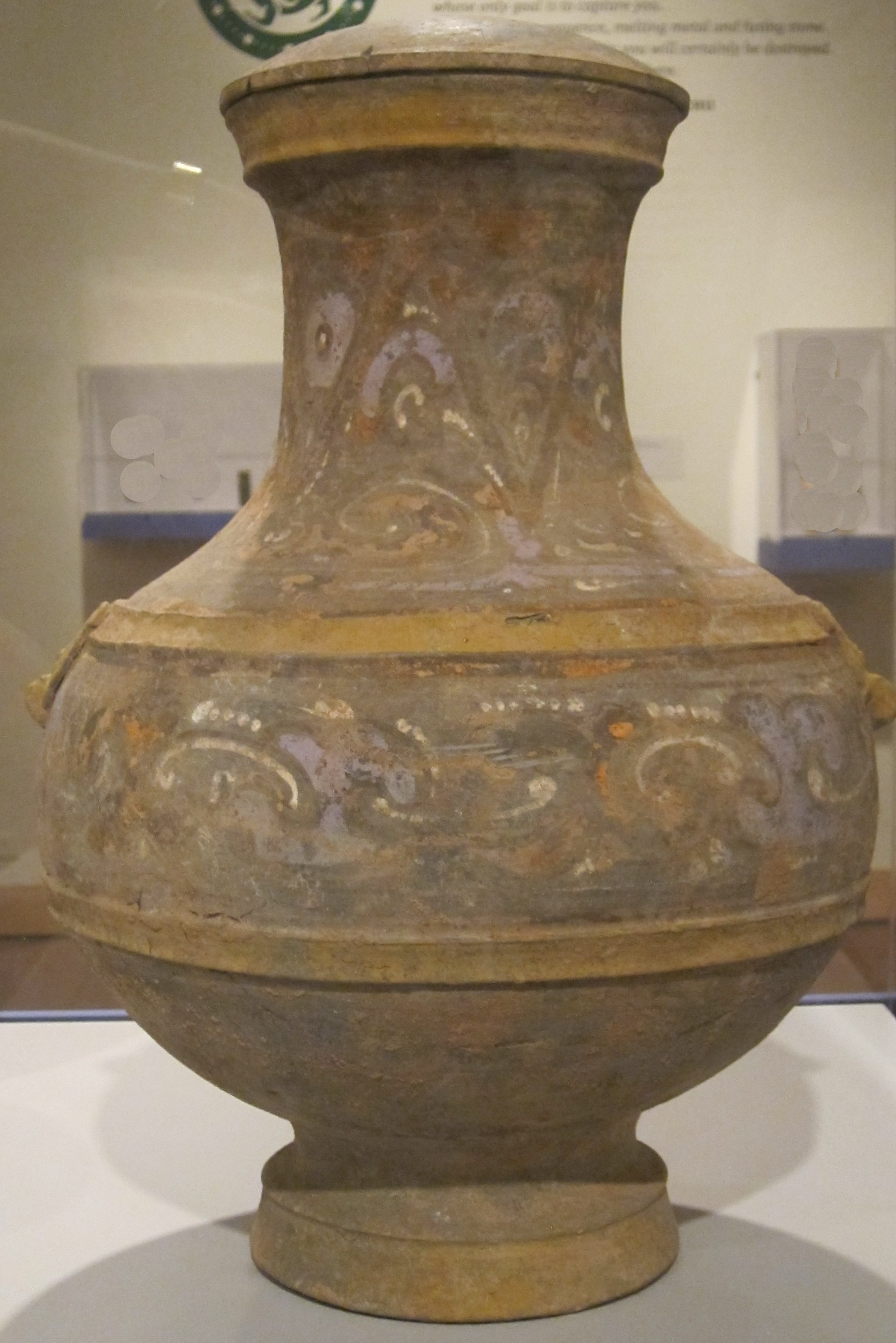 Covered vessel (hu), China, Han dynasty (206 BCE – 220 CE), painted earthenware with polychrome, Honolulu Museum of Art